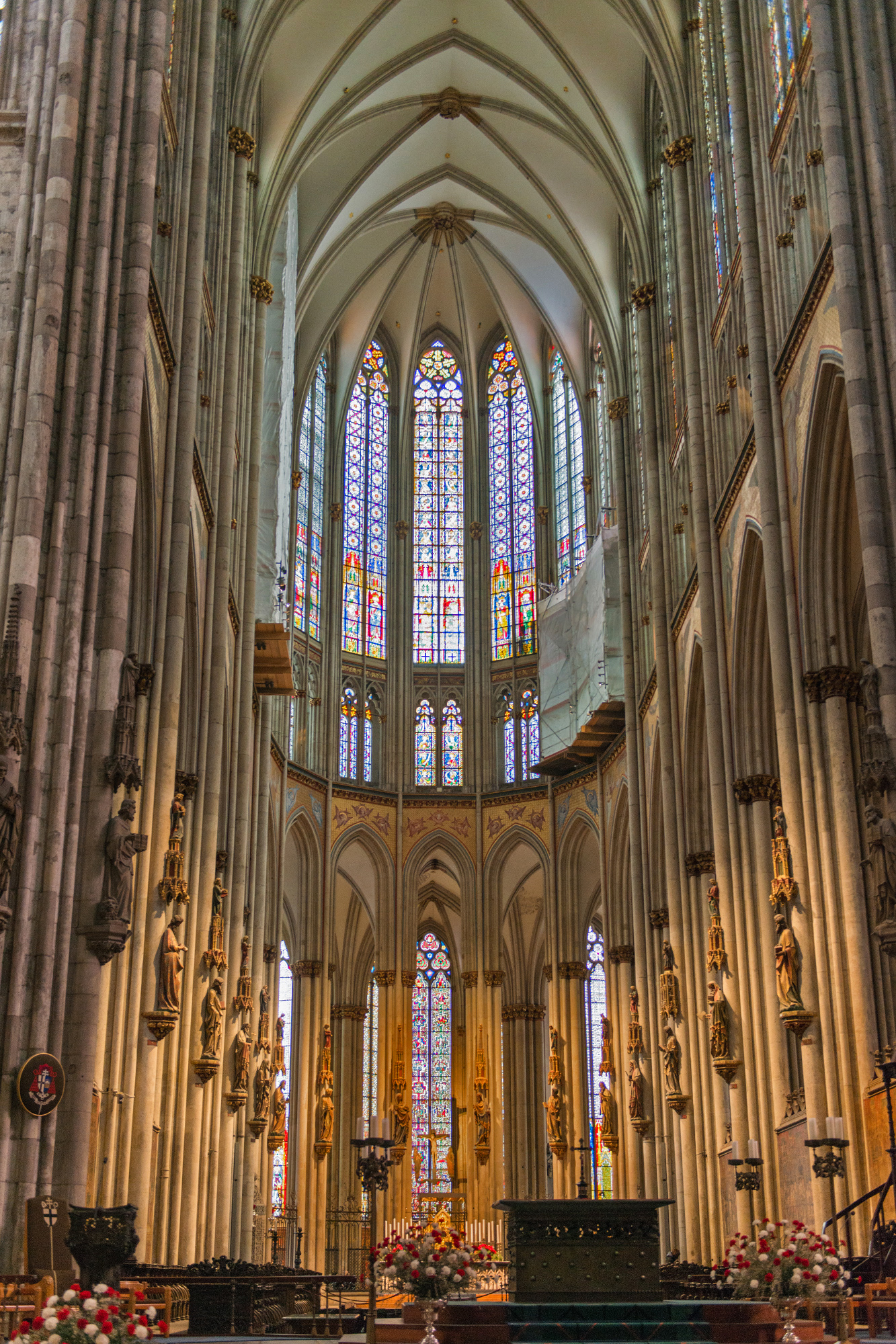 The Rayonnant Gothic choir of Cologne Cathedral (Kölner Dom)